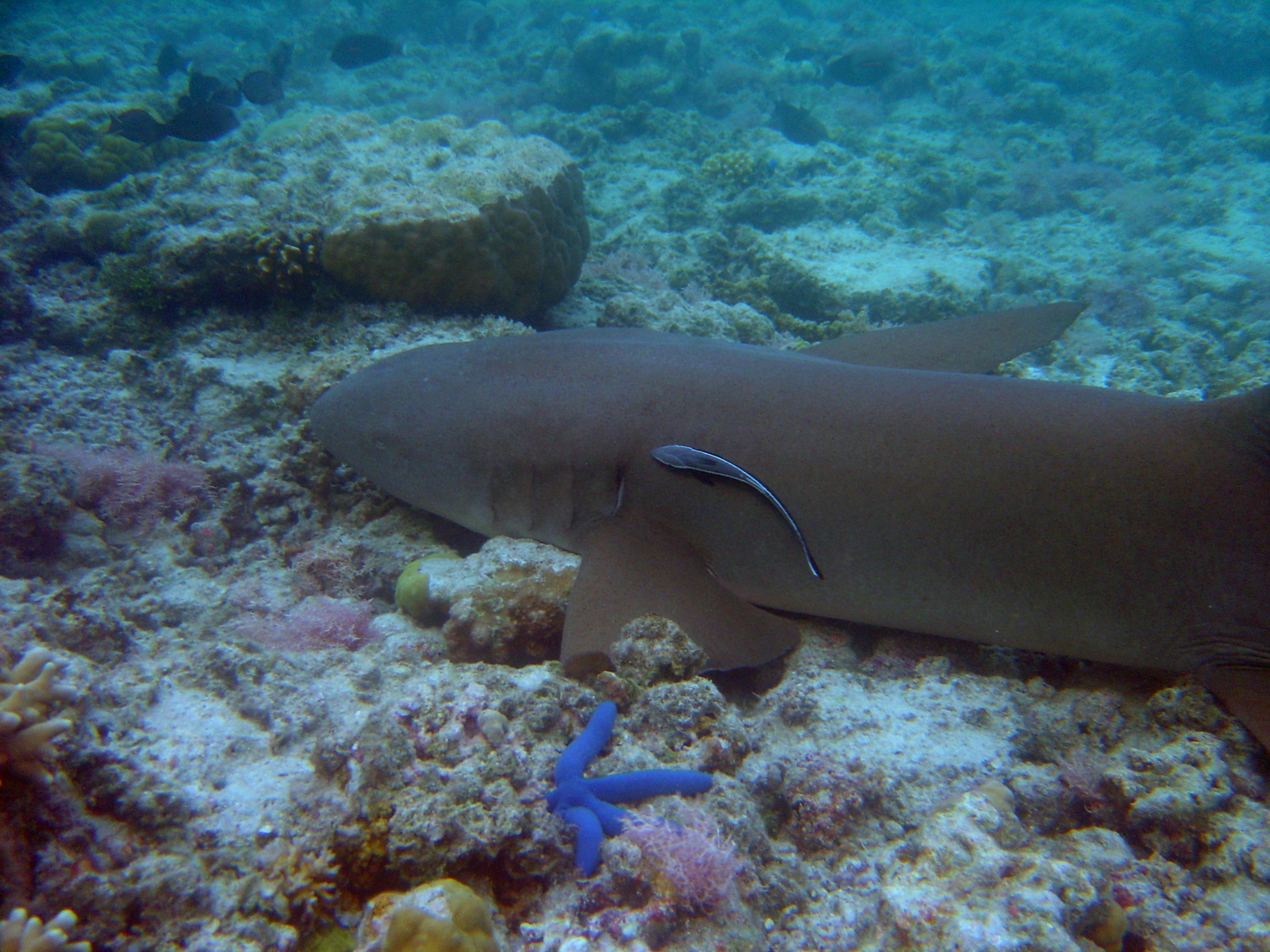 Tawny nurse shark (Nebrius ferrugineus) off Palau.